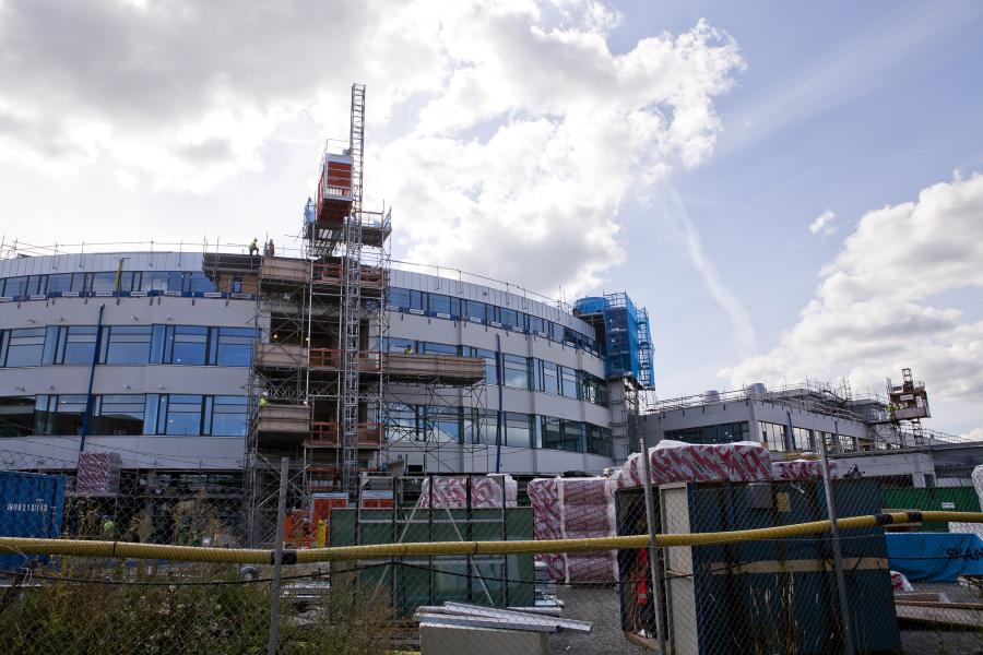 The construction site of the new Veterinary and Animal Science Centre at SLU in Ultuna/Uppsala. Photo by Jenny Svennås-Gillner, SLU